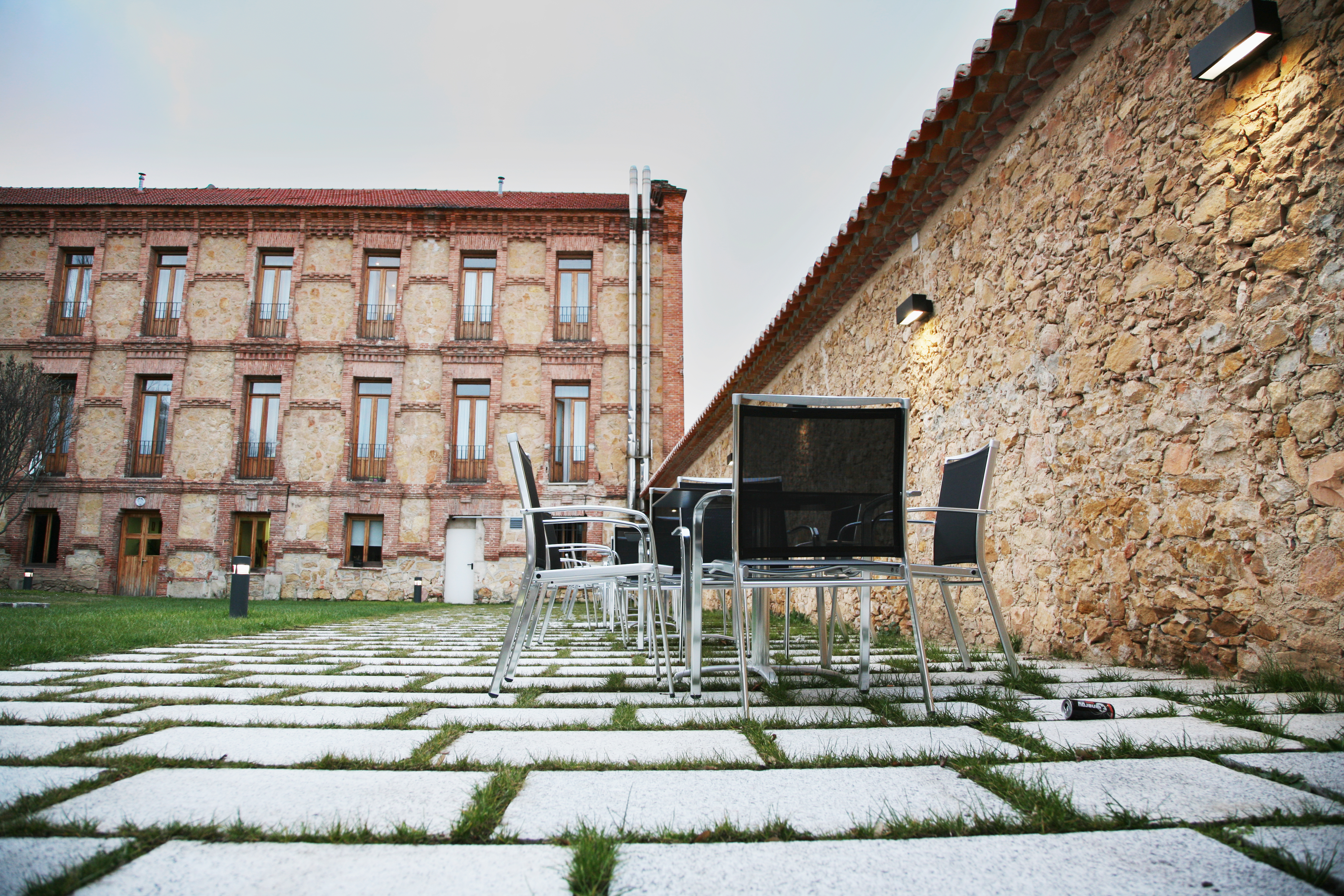 Santa Cruz la Real Campus of IE University in Segovia, Spain. IE University Native nameIE UniversidadLocationSegovia , (Spain)Coordinates40° 57′ 11.33″ N, 4° 07′ 03.05″ W Established1997Web page control : Q283501 VIAF: 300968702 ISNI: 0000 0004 1782 8840 LCCN: nb2013009842 BNE: XX5548932 WorldCat institution QS:P195,Q283501